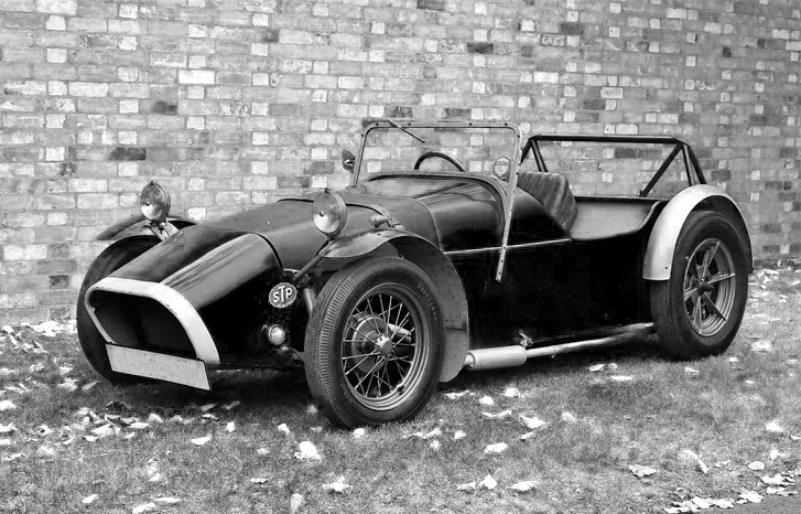 The Speedex 750 was the first sports car body produced by Jem Marsh's Speedex Castings and Accessories Ltd. in Luton between 1958 and 1962, for the 747cc Austin 7 chassis. One of the survivor cars.